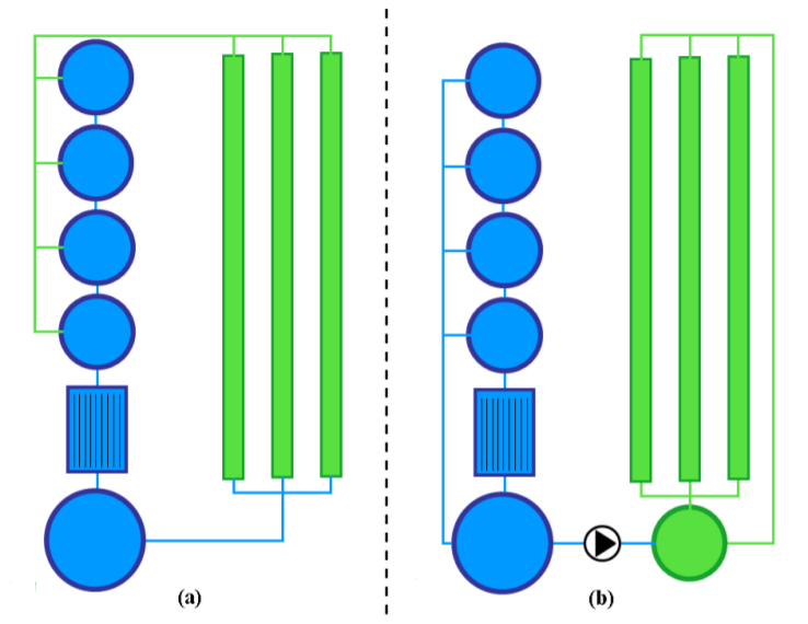 Vlevo je znázorněn jednosmyčkový akvaponický systém s propojenou cirkulací. Vpravo je znázorněn systém, kde je akvakulturní a hydroponická část oddělena a jsou propojeny pouze jednosměrným ventilem, propouštějícím vodu od ryb do hydroponické části.